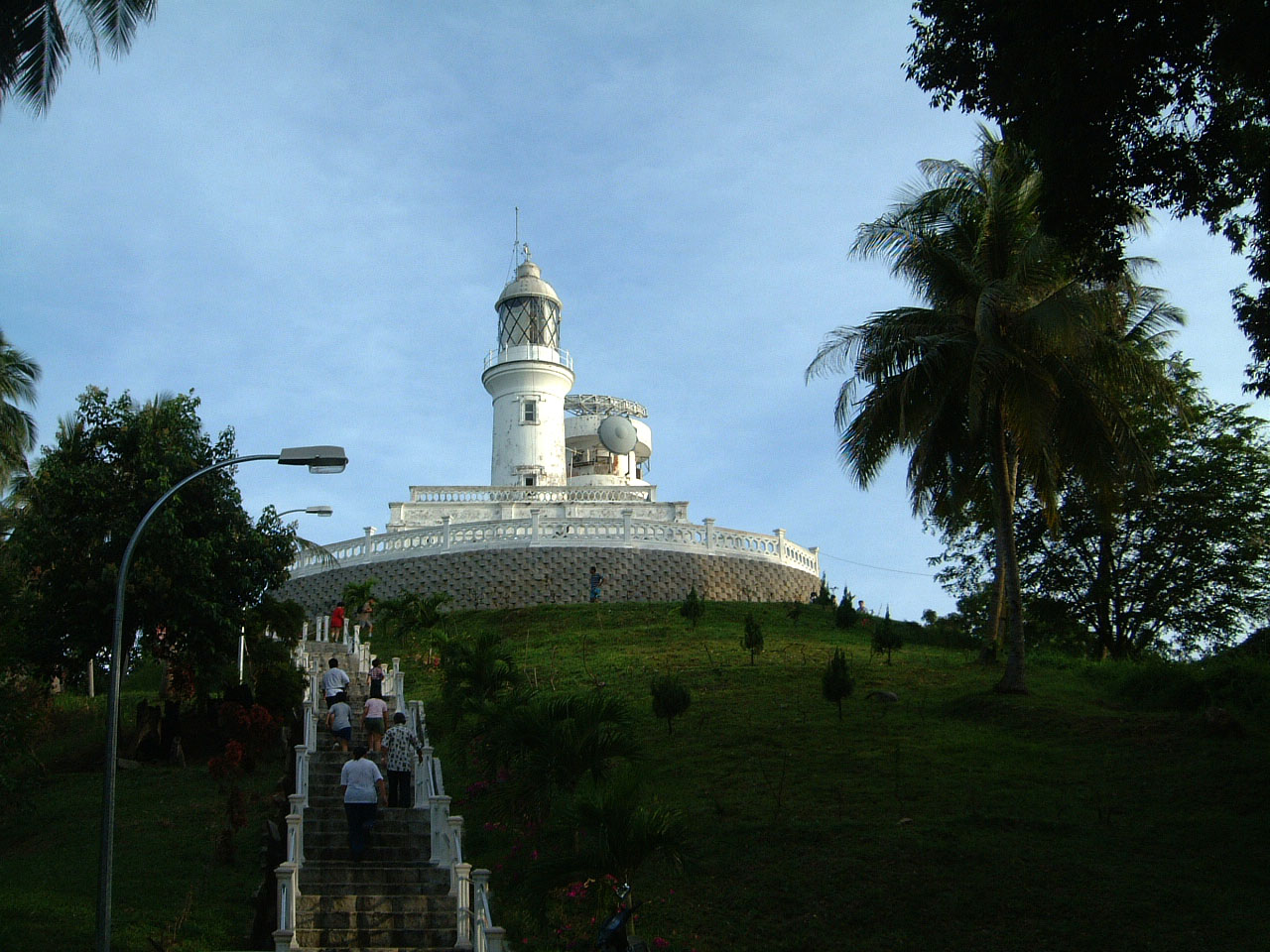 Port Dickson lighthouse which is a tourist attraction because of its panoramic views.